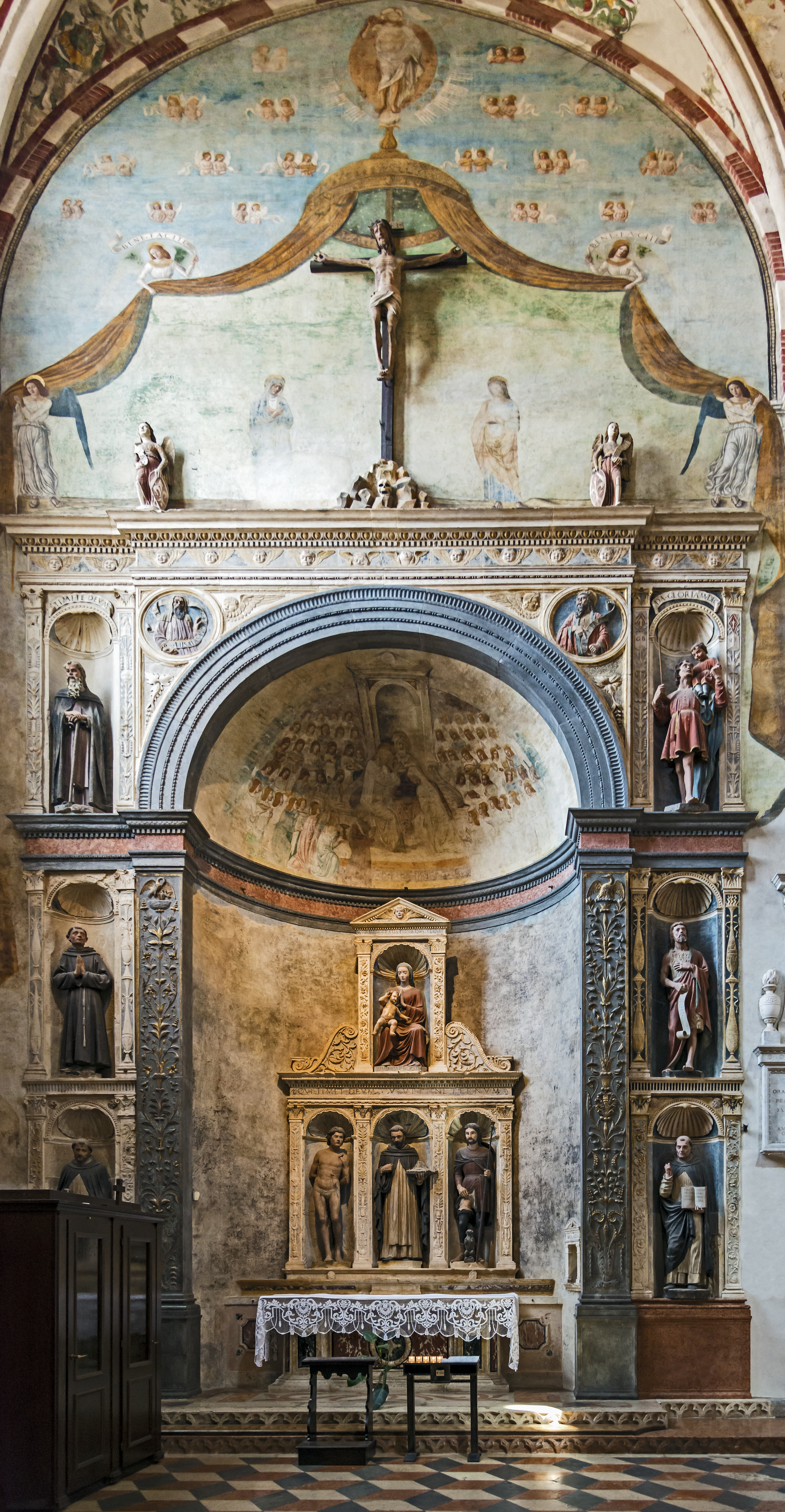 Basilica Santa Anastasia. Altar Baldieri. All around fragments of fresco, by Antonio Badile II (1424-1507).